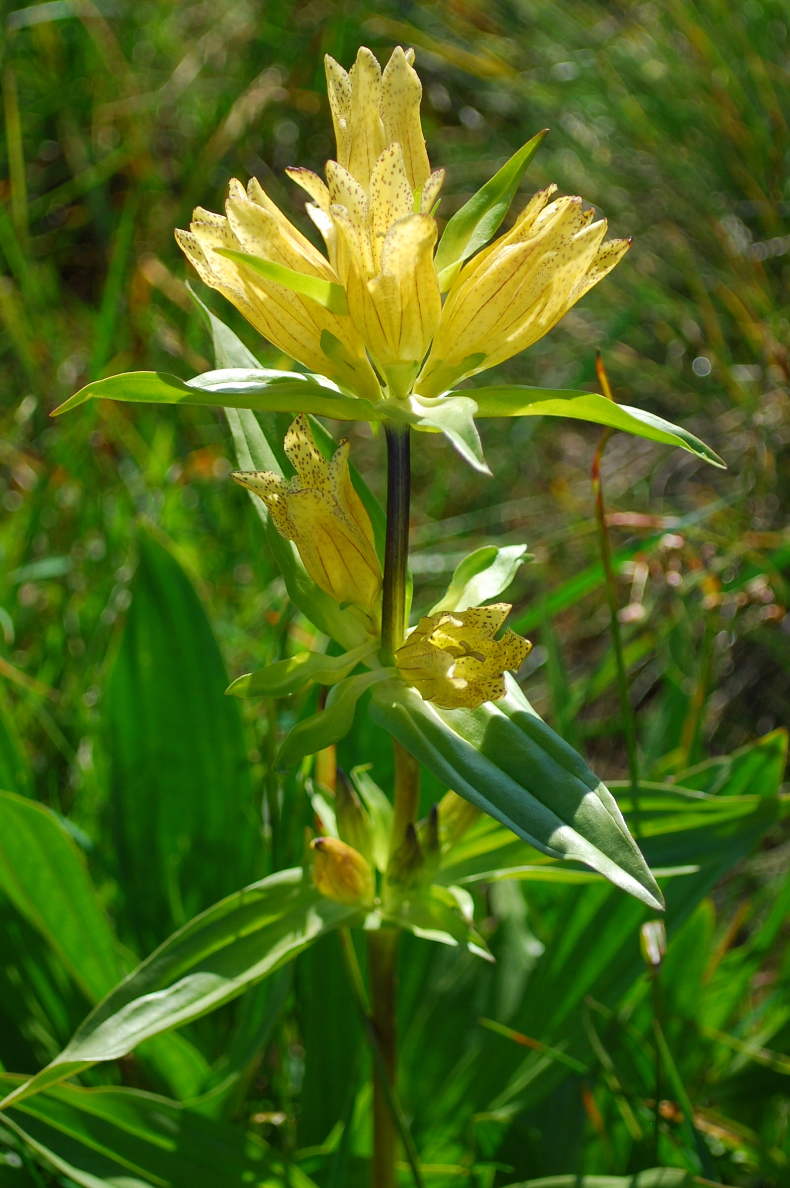 Gentiana punctata L.